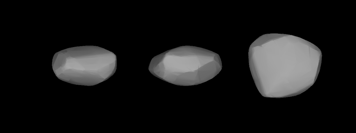 A three-dimensional model of 127 Johanna that was computed using light curve inversion techniques.